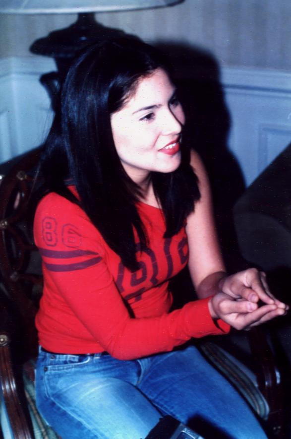 Jacquelyn Davette ("Jaci") Velasquez in a interview in El Salvador